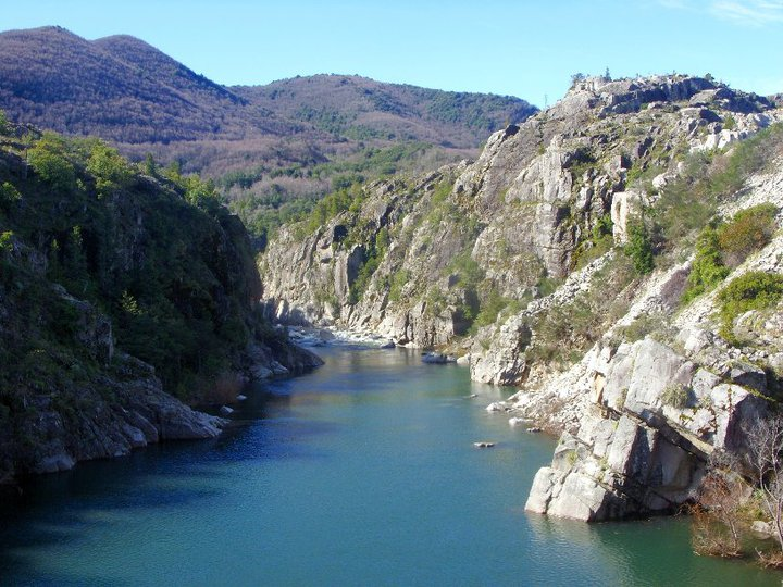 queda ubicada camino a Antuco por el lado de Polcura